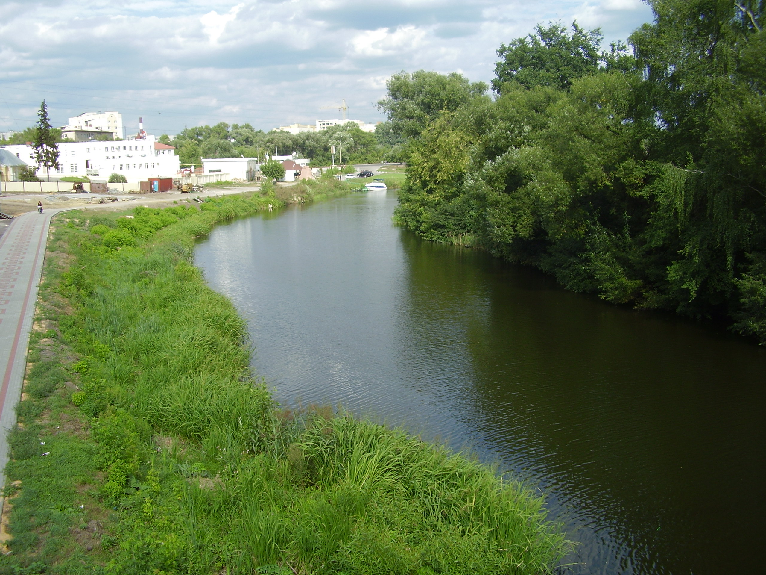 Tambov, Russia: the Tsna River in the municipal park.